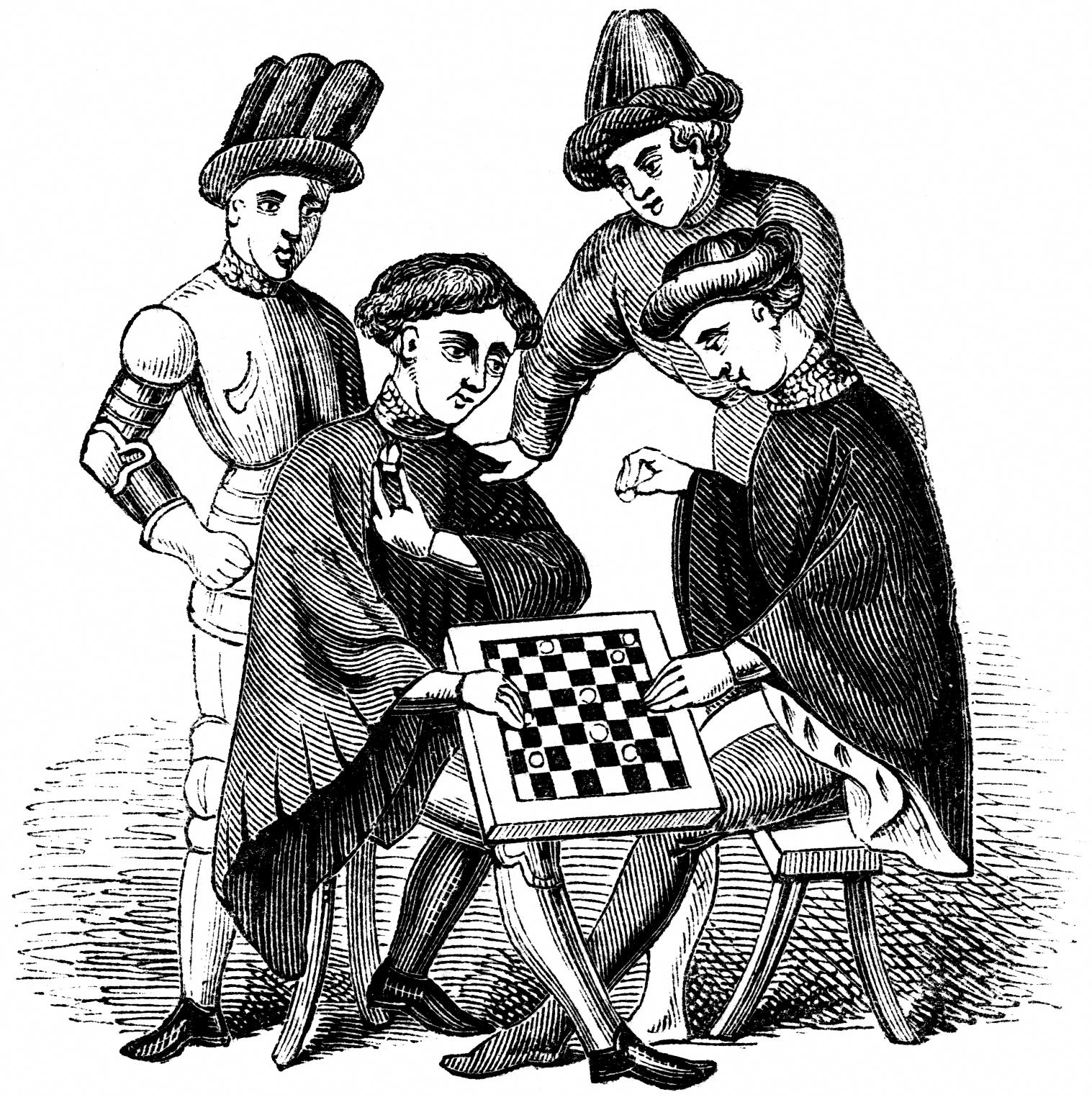 Two men in mediæval clothing [US: medeval] sit with a draughts [US: drafts or checkers] board balance between their knees. Two other men, one a knight in armour, the other perhaps a page boy, watch on.